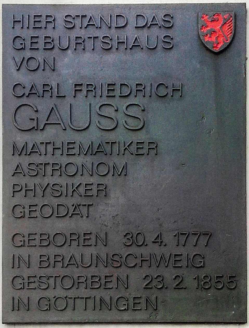 Sign on the former location of Gauss' birth house